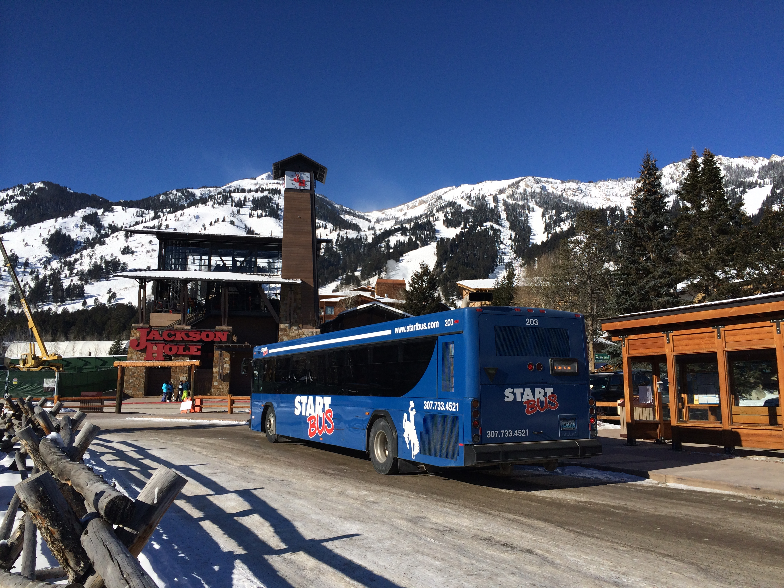 Picture of a START public transit bus in Teton Village, WY